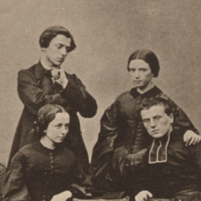 Uitsnede uit de foto van de familie Verriest - Deerlijk - België. Guido Gezellearchief, Openbare Bibliotheek Brugge, nr.8983 F